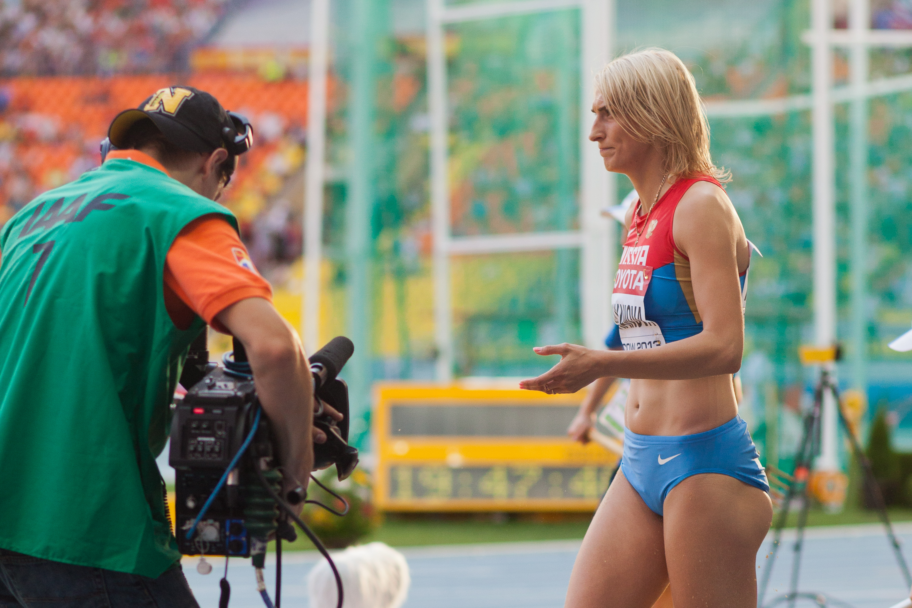 Lyudmila Kolchanova during 2013 World Championships in Athletics in Moscow.